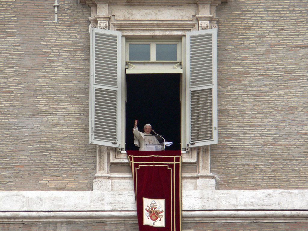 Pope Benedict XVI. Palazzo Apostolico Vaticano.